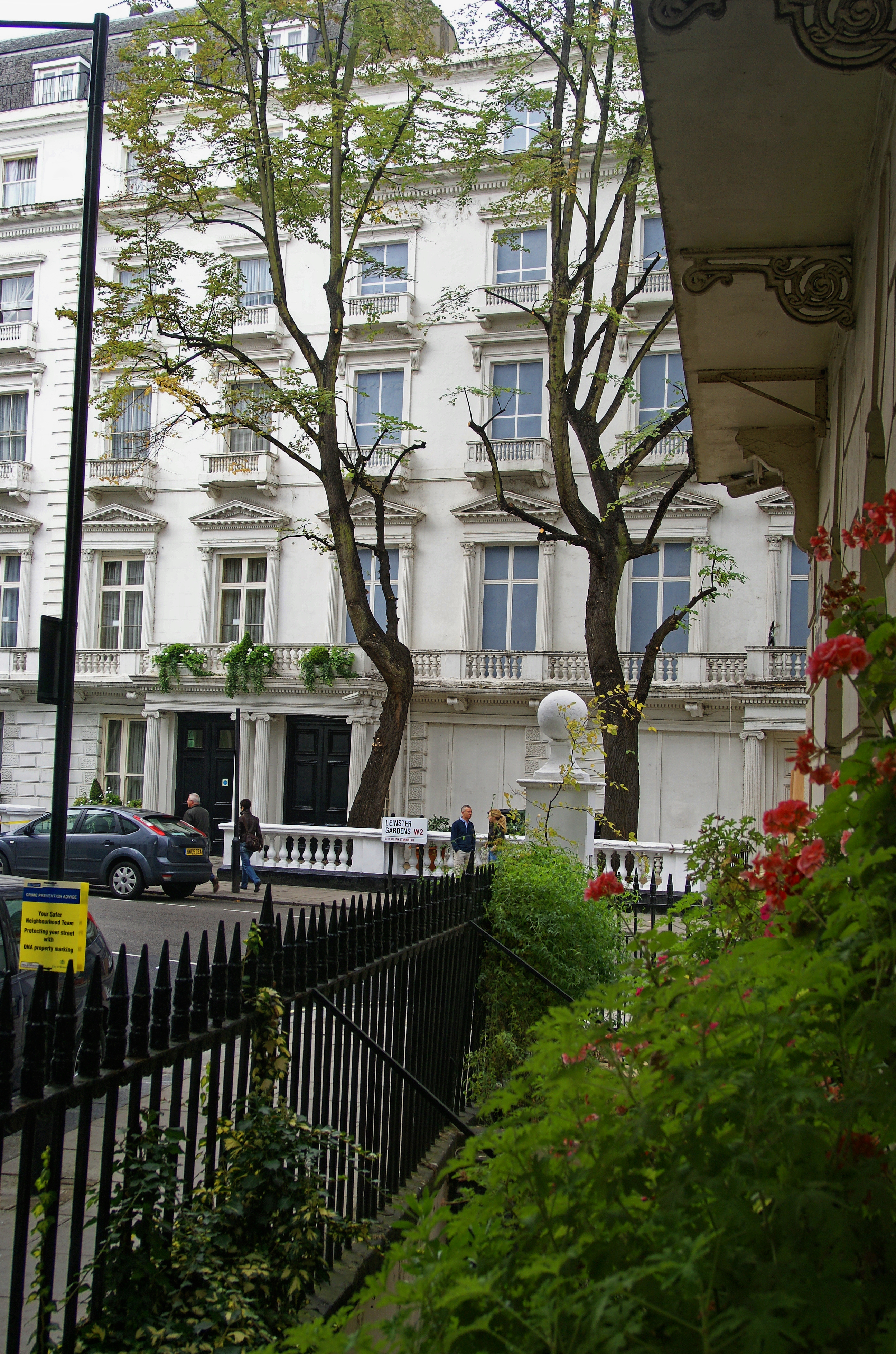 London - Craven Hill Gardens - View WSW